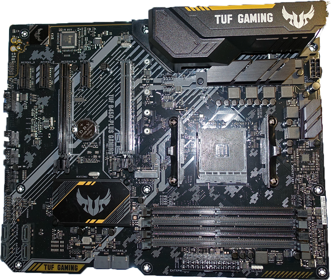 Asus "TUF B450-PLUS GAMING" AM4 motherboard, Rev. 1.02.